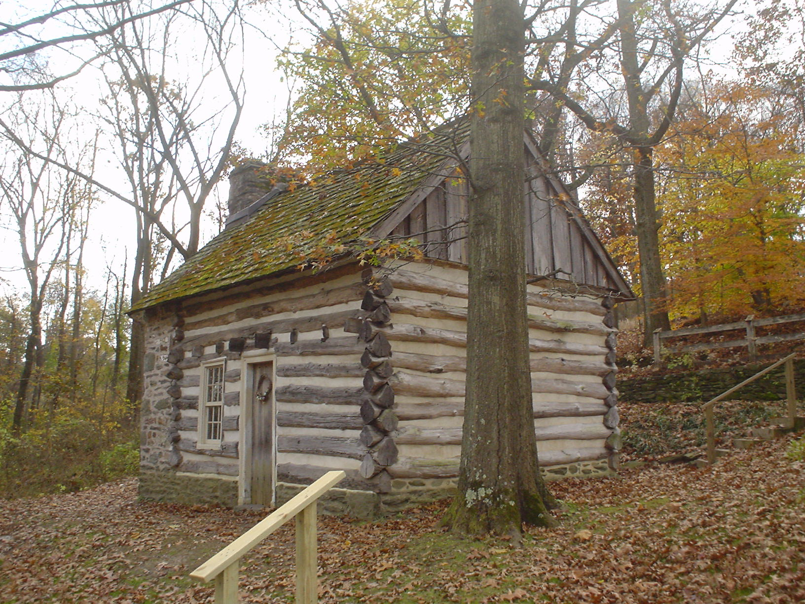 Lawrence Cabin located next to Nitre Hall on Cobbs Creek, near Philadelphia. I took this photo myself and donate it to the Public Domain.